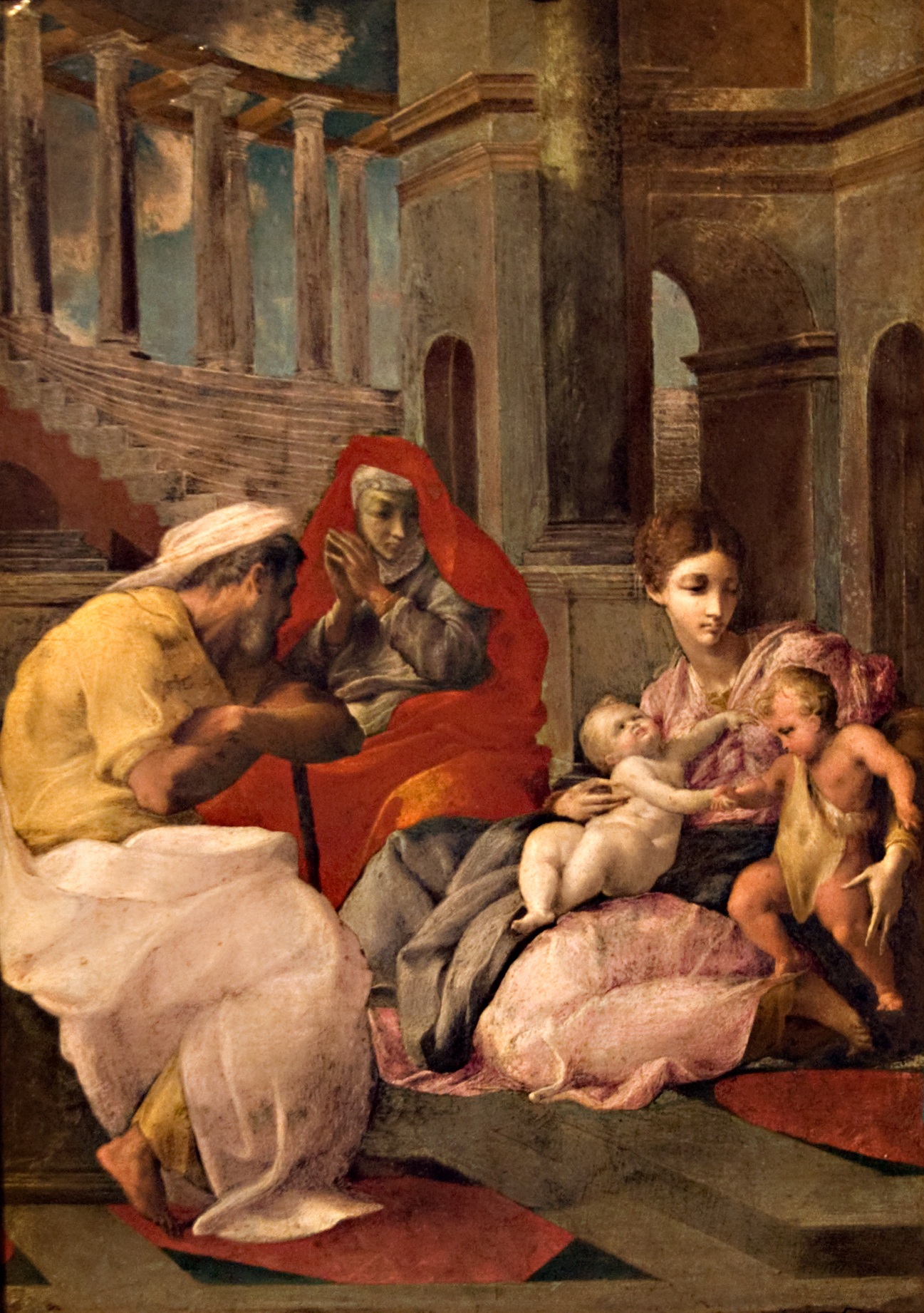 The Holy Family with St Elizabeth and John the Baptist.